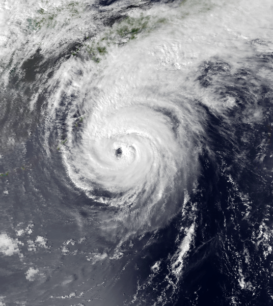 Typhoon Kelly on October 15, 1987